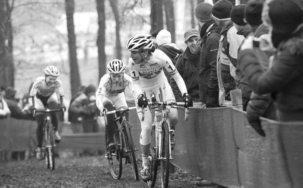 Leading Dutch cyclists Marianne Vos (No 1), Daphny van den Brand (No 2) and Sanne van Paassen (No 3) in the last event of 2009/2010 World Cup in cyclo-cross, the Grote Prijs Adrie van der Poel in Hoogerheide, the Netherlands.